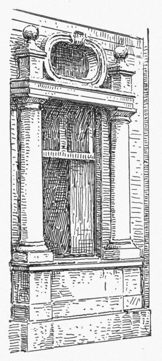 Scan from book 'Character of Renaissance Architecture'